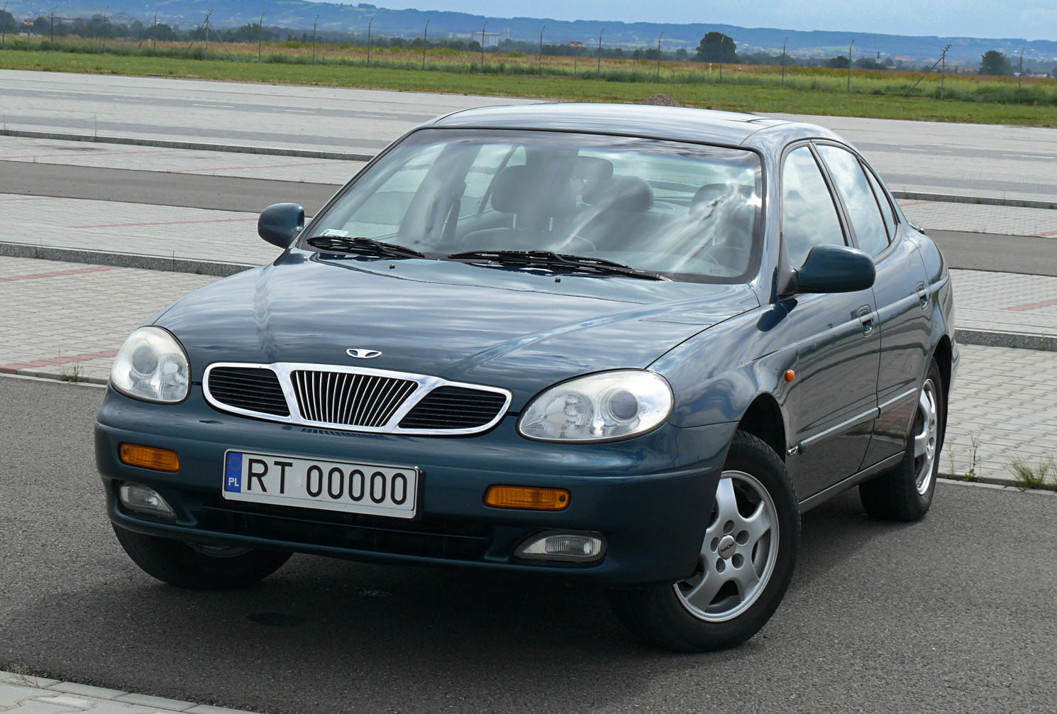 1999 Daewoo Leganza. Shot taken on a parking lot near Rzeszów-Jasionka Airport, Poland.